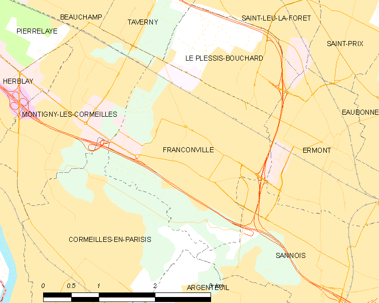 Map of French municipality Franconville